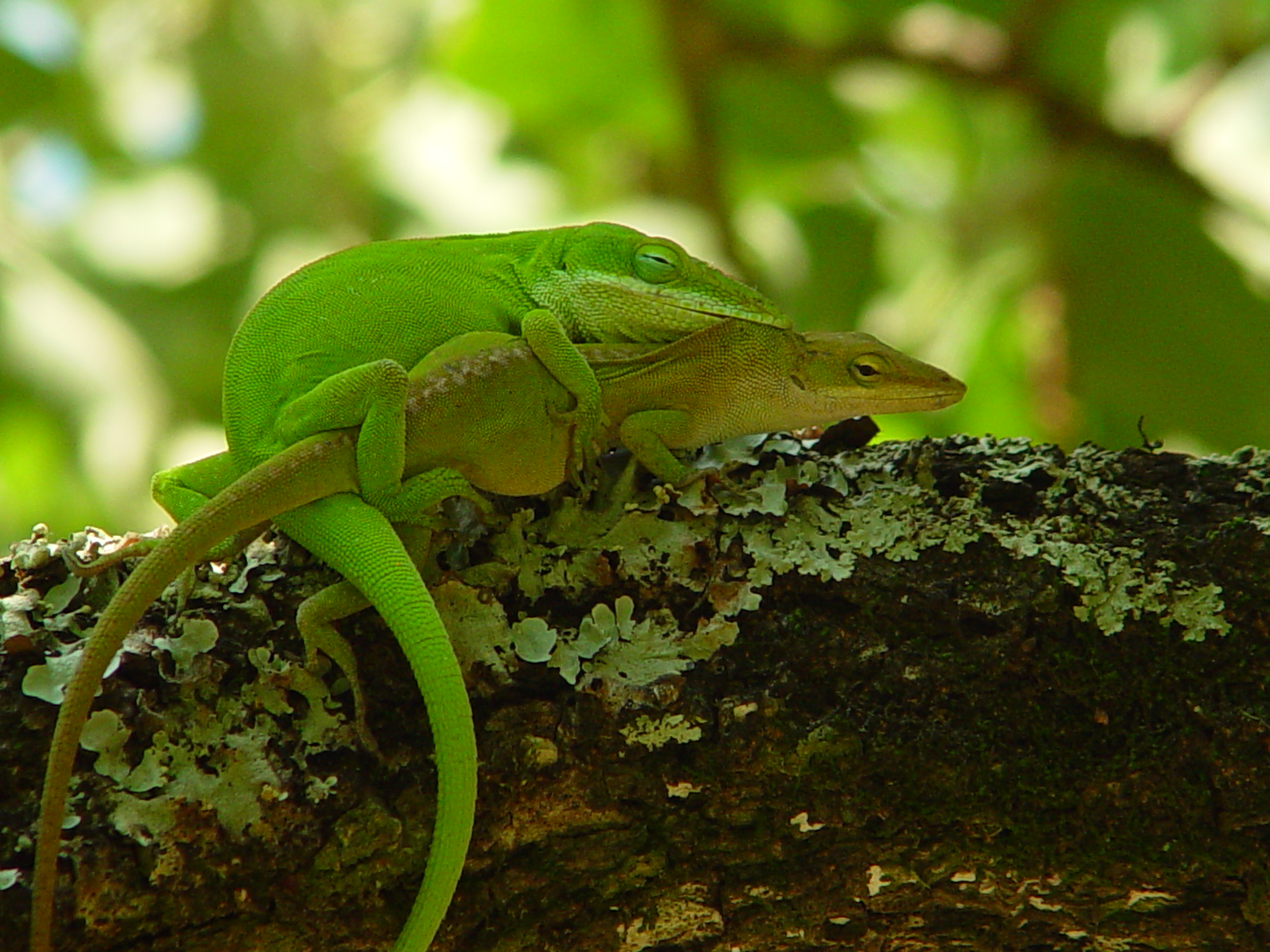 Two Carolina Anoles (Anolis carolinensis) mating. Original description at Flickr read: "anole's gettin' it on"